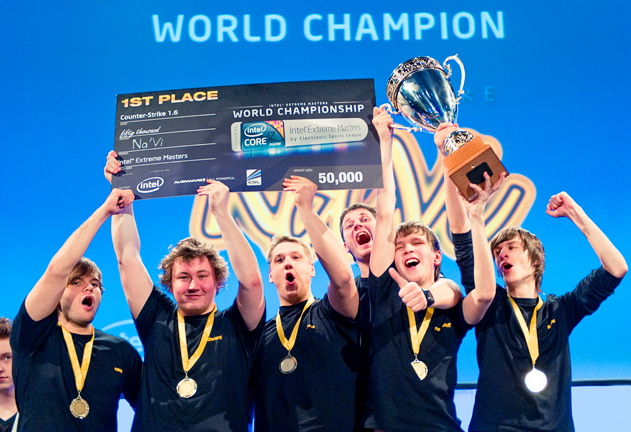 Natus Vincere win IEM4